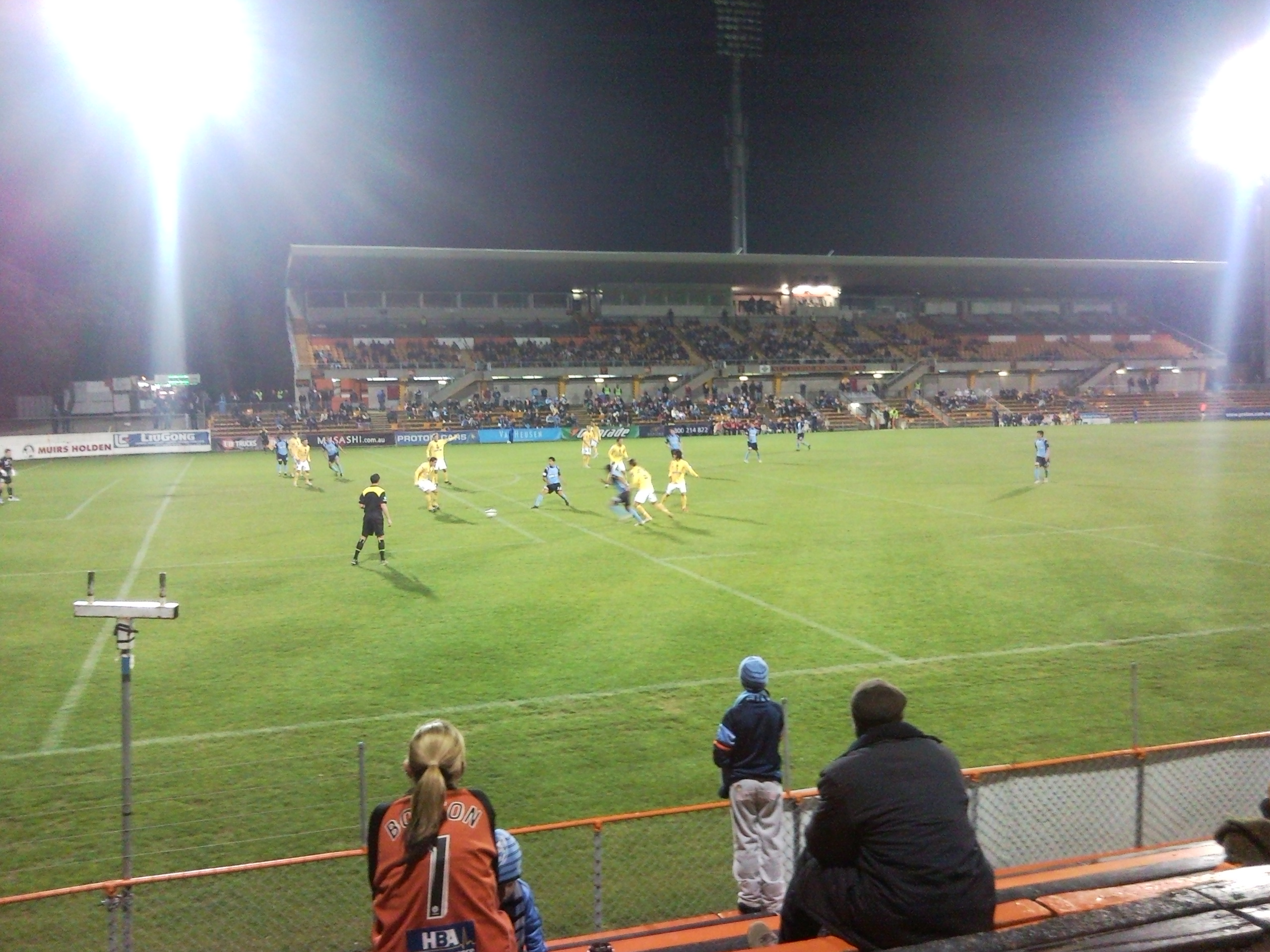 Sydney FC take on the Central Coast Mariners in a pre-season friendly game against the Central Coast Mariners